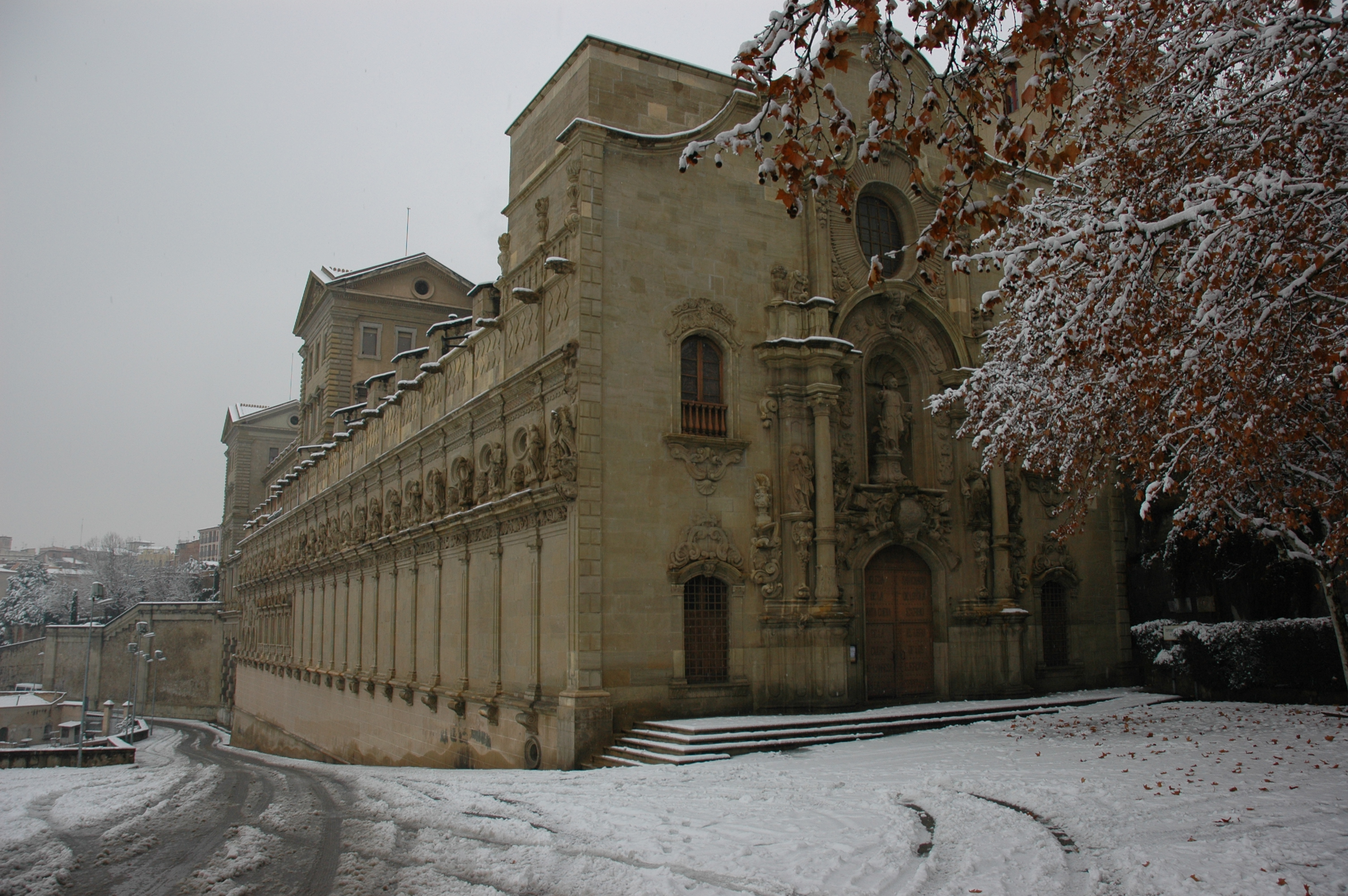 Cova de Sant Ignasi in Manresa, Catalonia